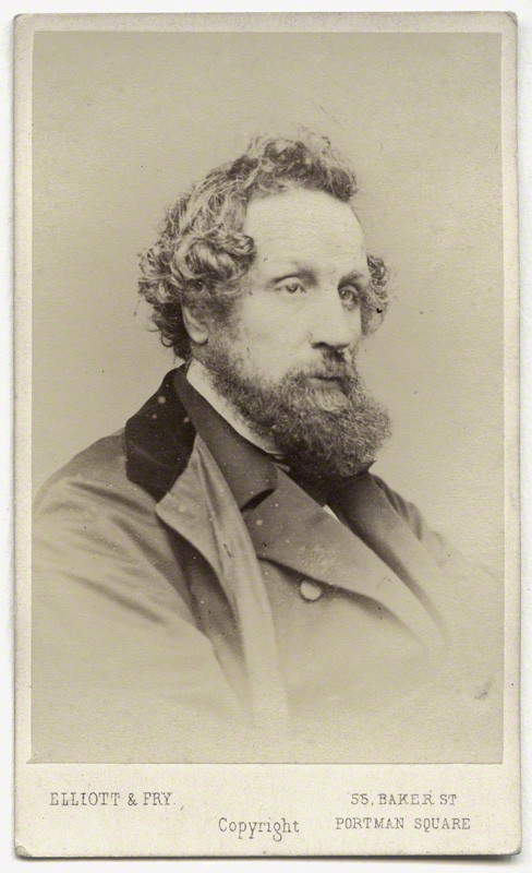 Photograph of Charles Gilpin. Albumen carte-de-visite. 3 1/2 in. x 2 1/4 in. (90 mm x 58 mm) image size.